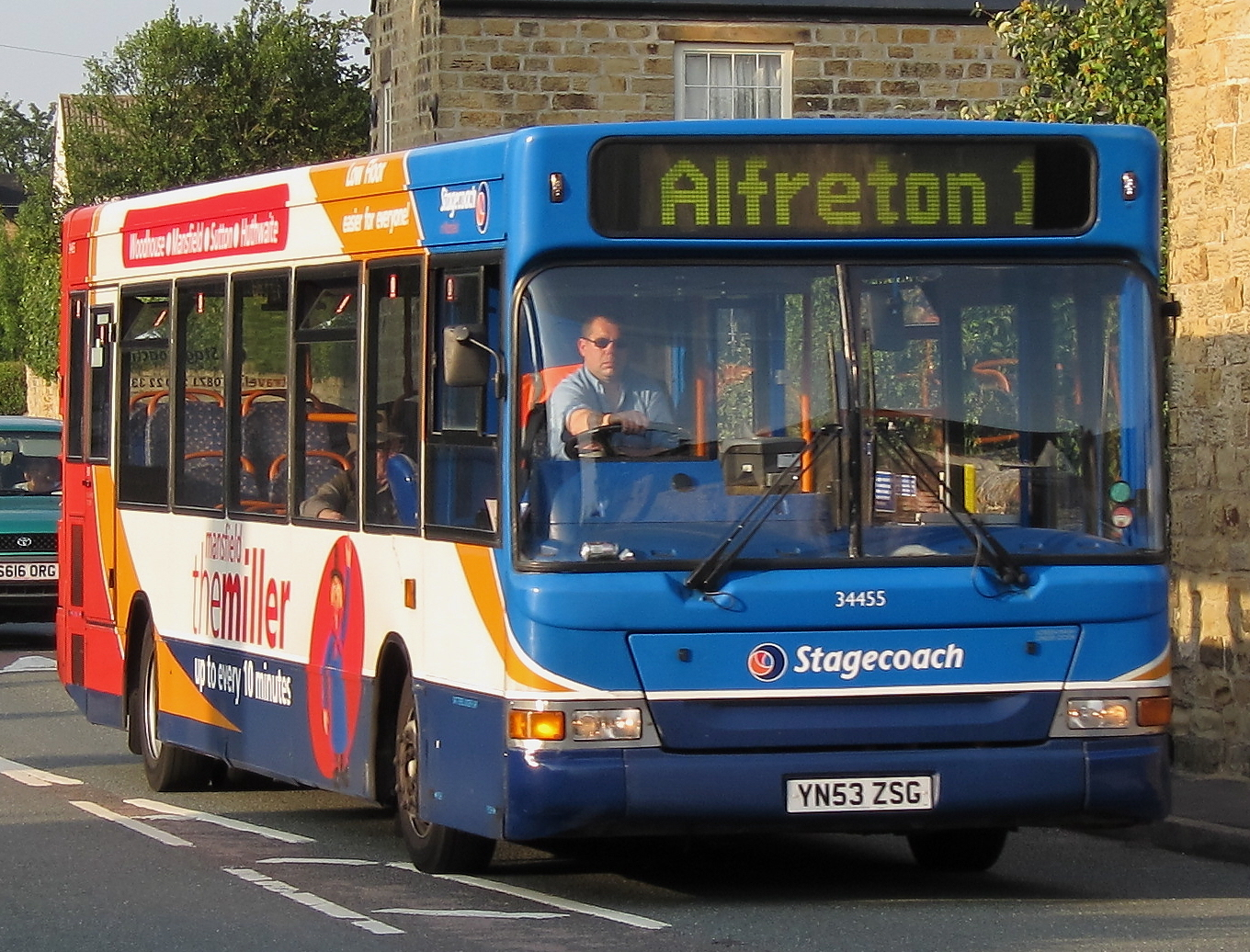 Stagecoach in Mansfield bus 34455 (reg. YN53 ZSG), a 2004 Transbus Dart midibus with Transbus Pointer bodywork, pictured in Tibshelf High Street, Derbyshire. It's branded for and operating route 1, the Mansfield Miller.